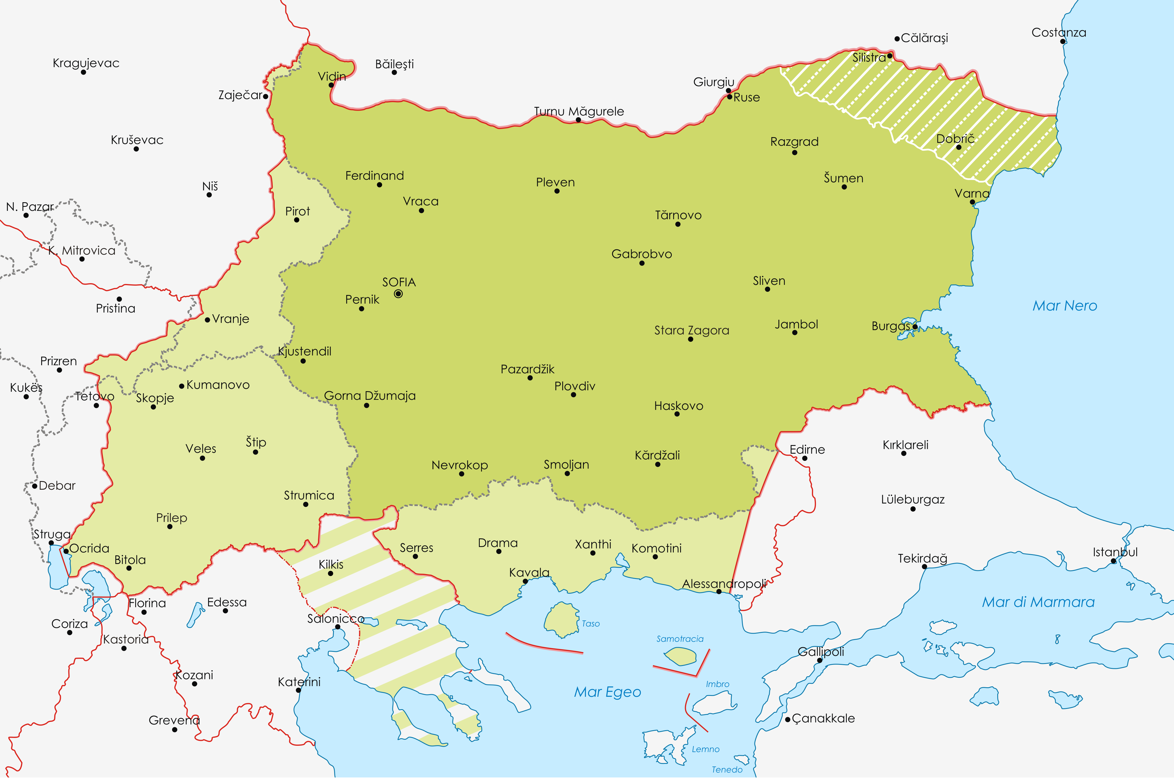 Map of Bulgaria during WWII